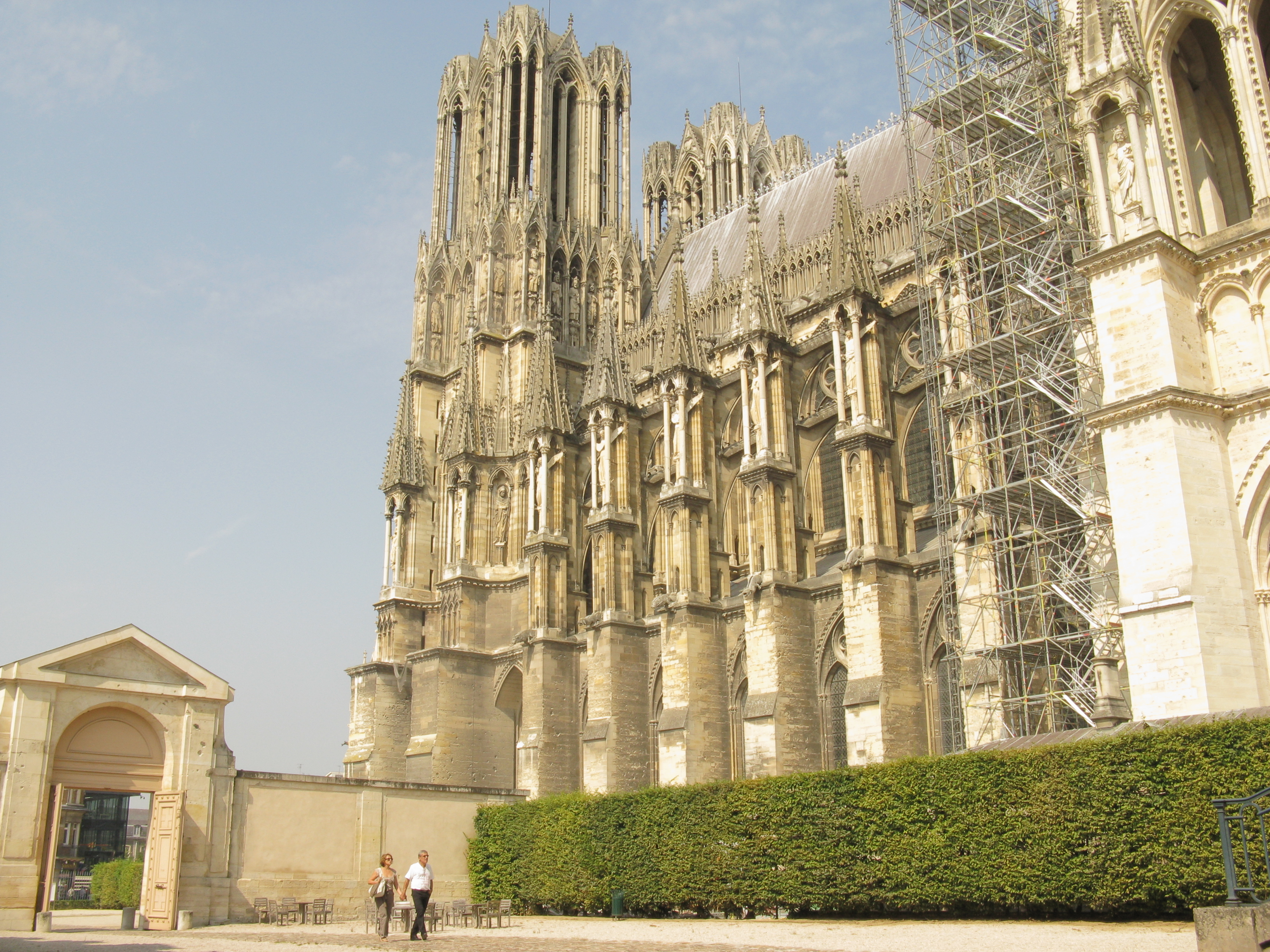 Southern exterior of the nave of the Notre-Dame cathedral in Reims, France.